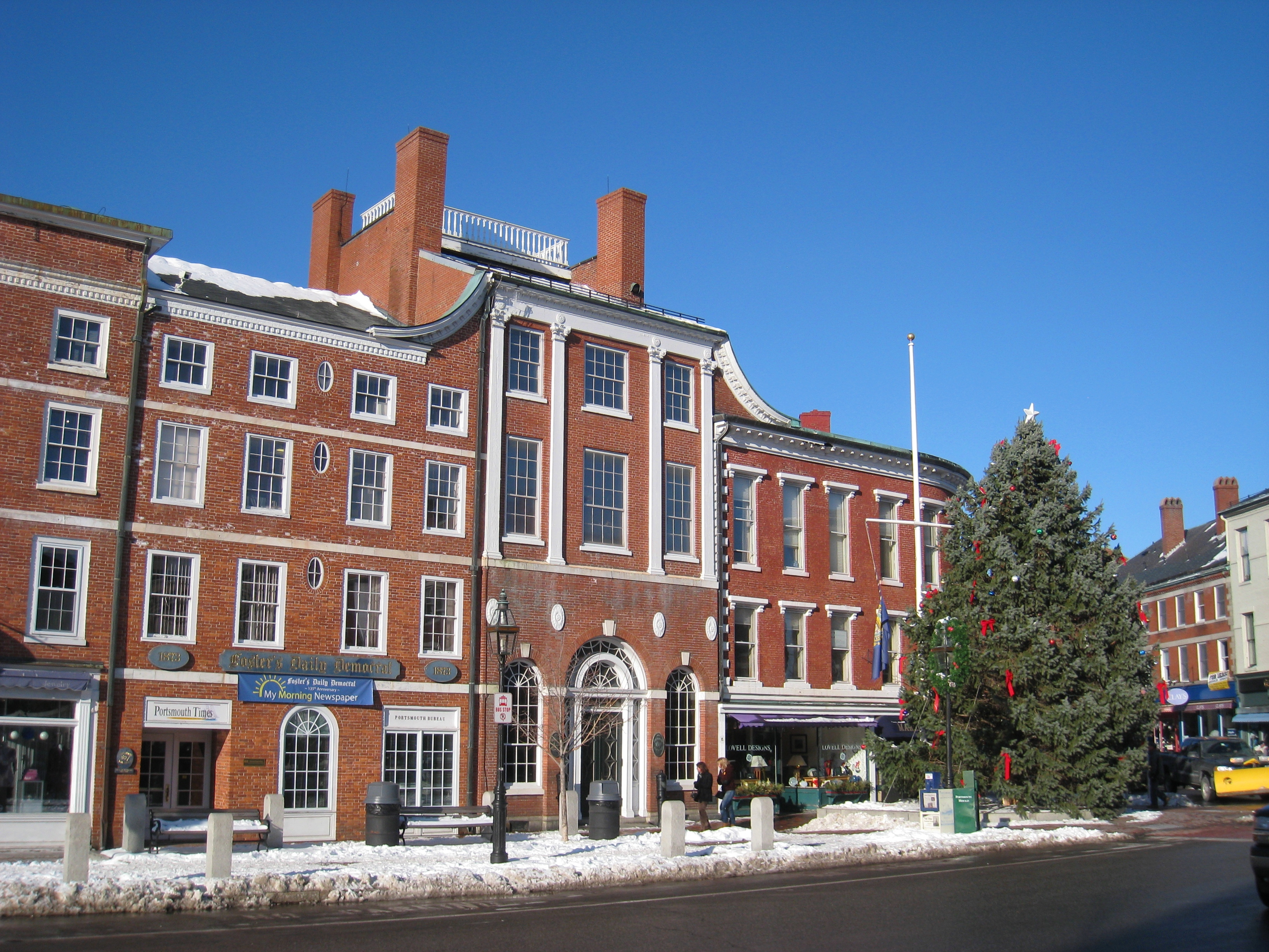 Market Square in Portsmouth, New Hampshire, USA. I took this photograph.